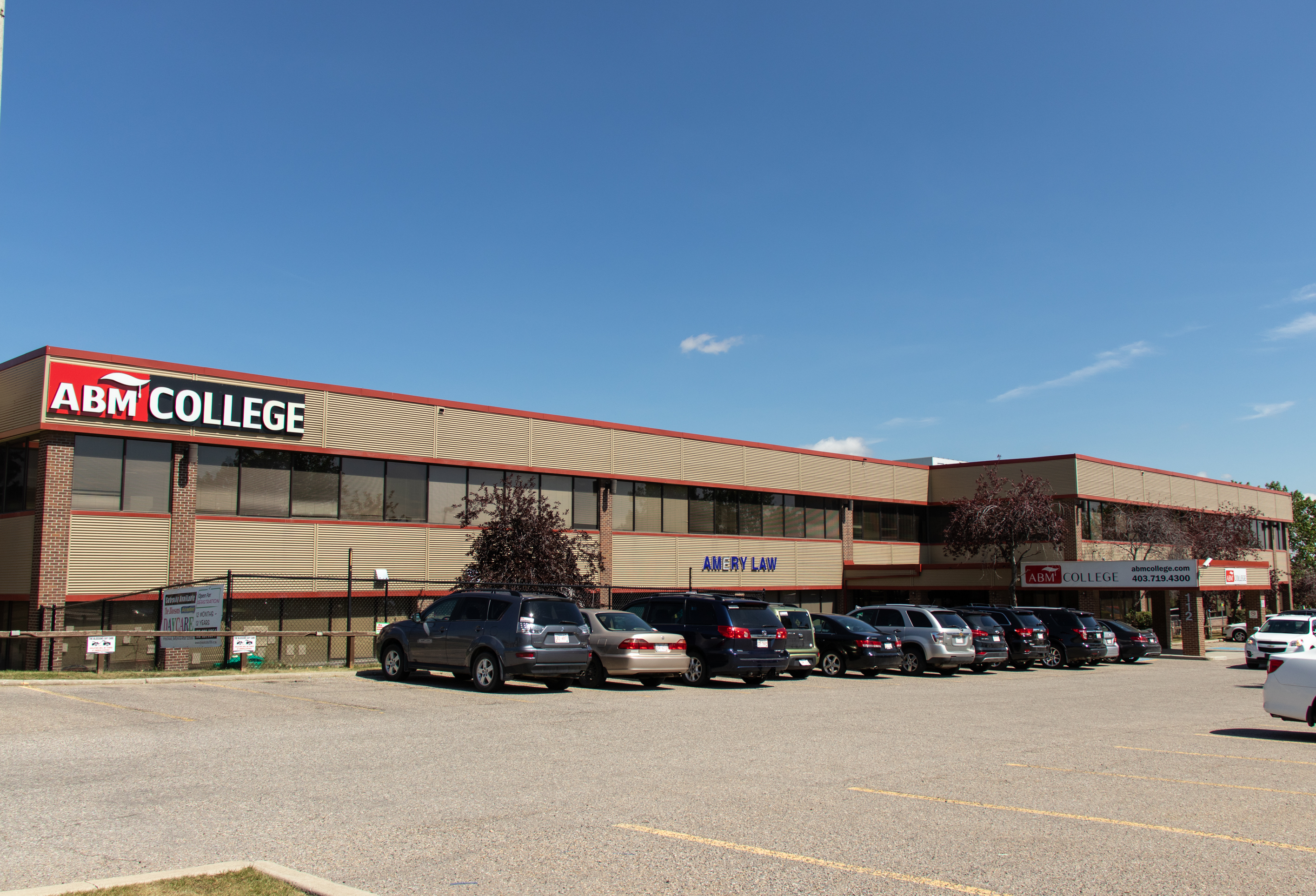 External shot of ABM College building from the parking lot